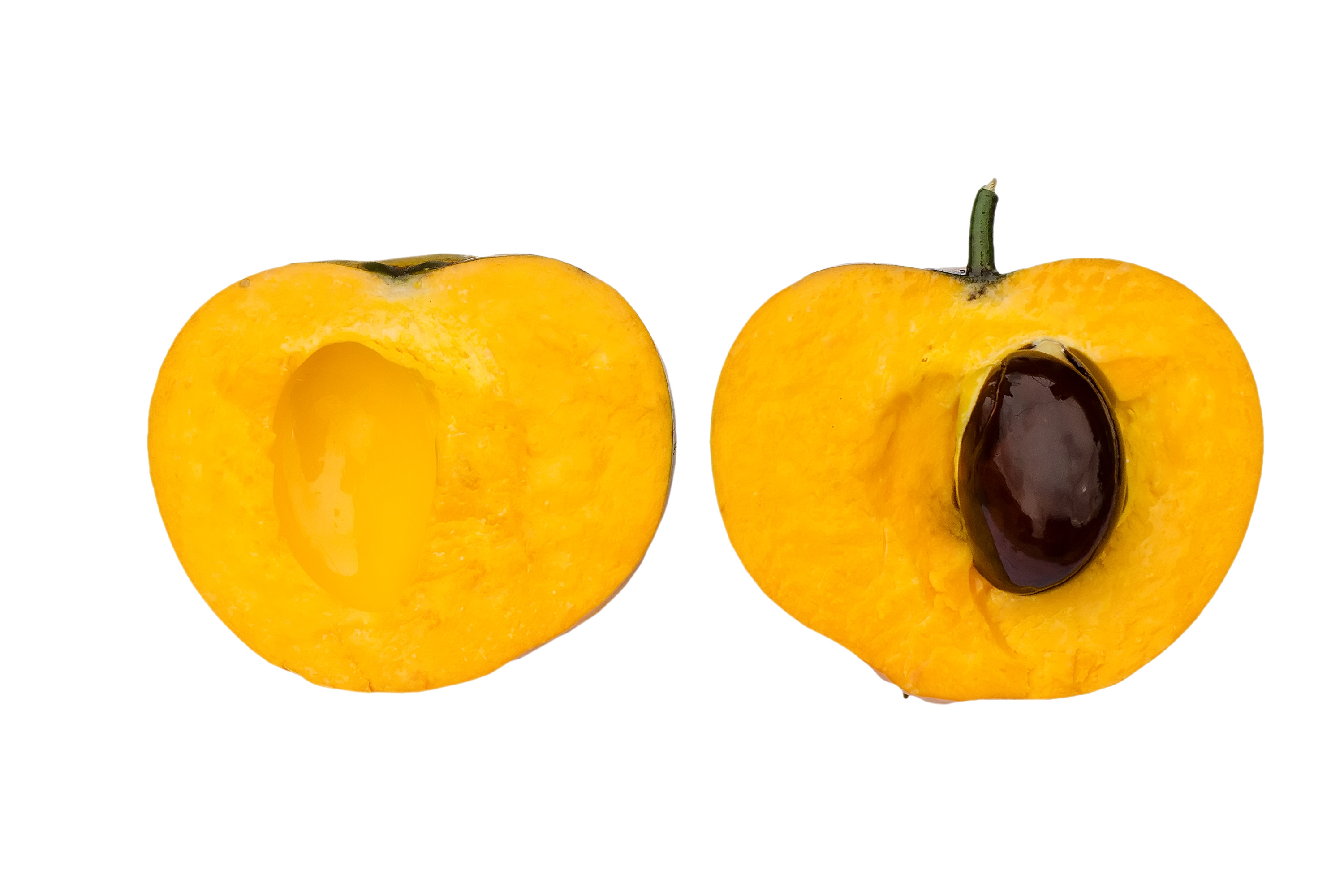 Egg fruit cross section